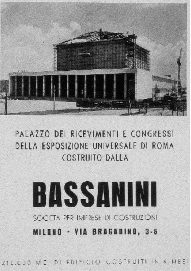 1939 advertising of Bassanini, an Italian company of Milan that built the Palazzo dei Congressi in Rome 1938-1940